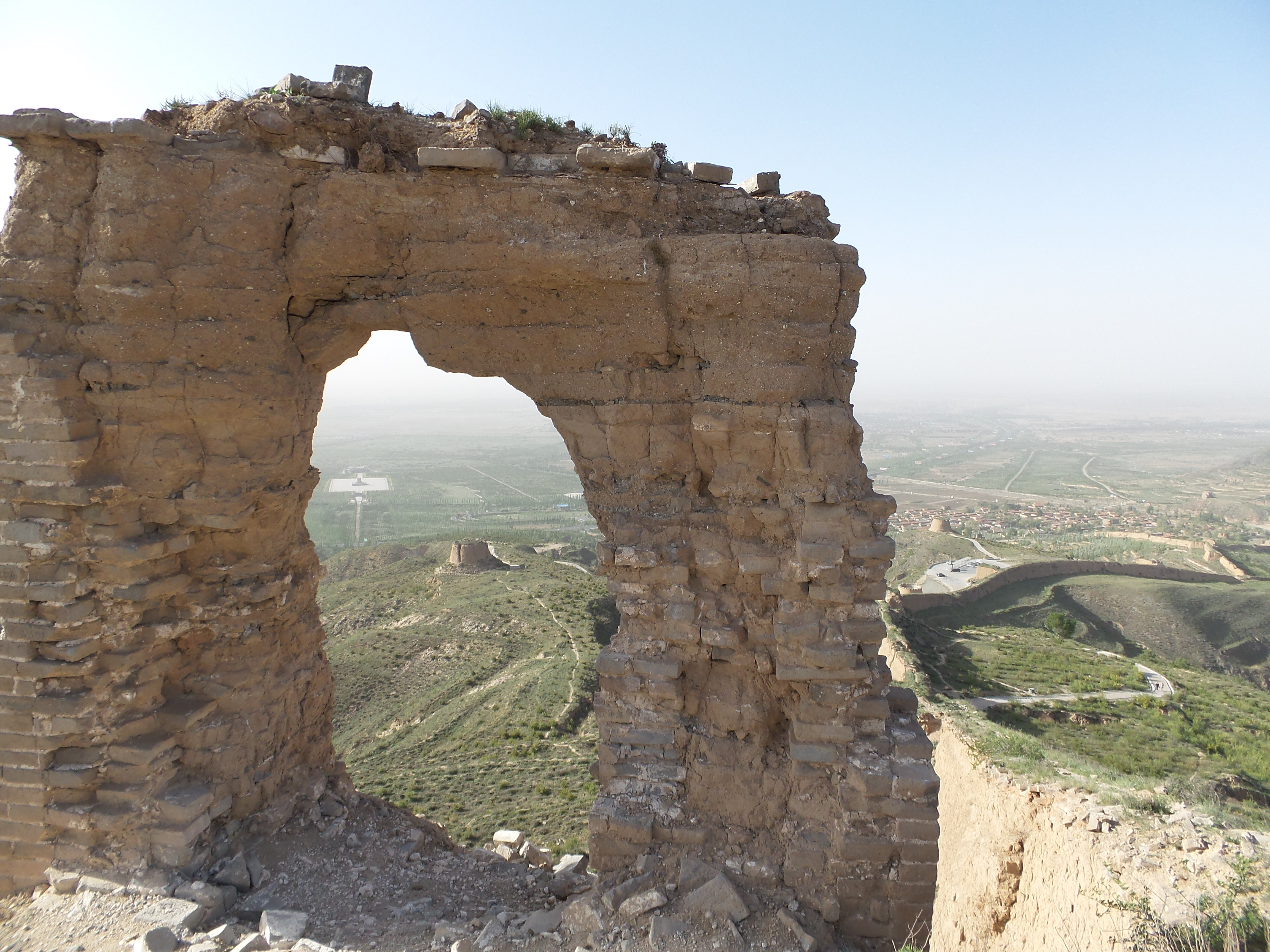 The "Moon Gate" of the Guangwu Great Wall in Shanxi, China 中文（中国大陆）: 广武长城月亮门